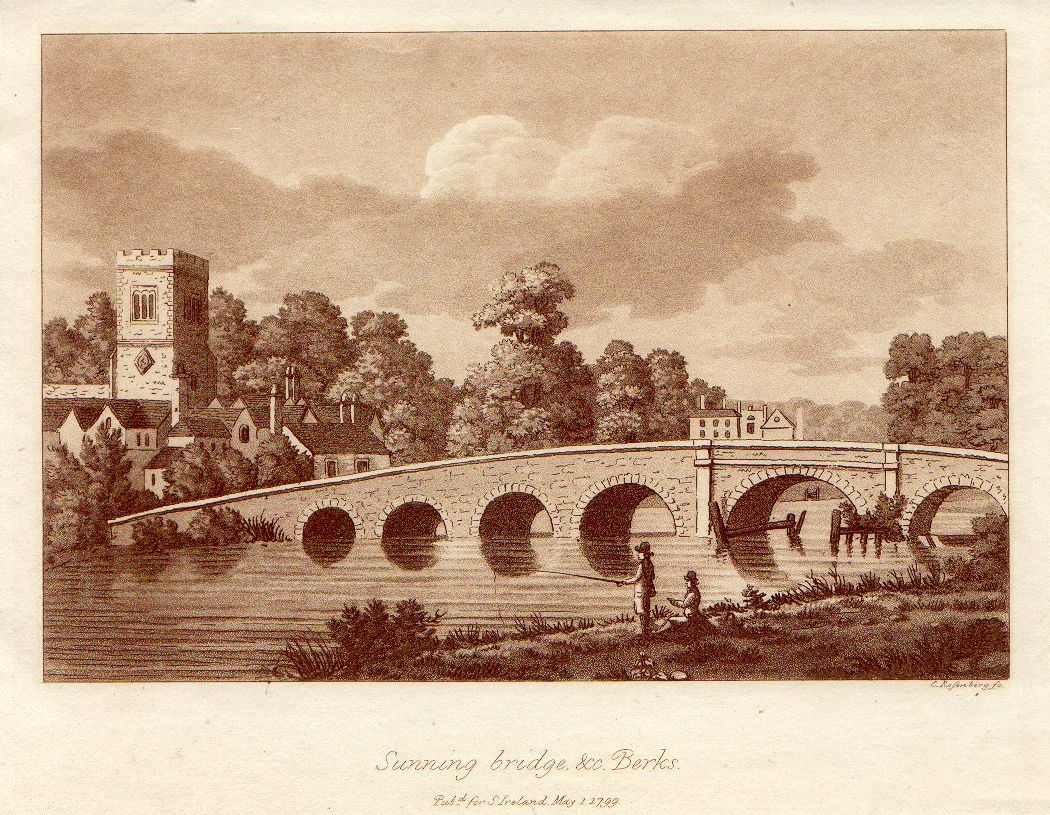 Print of Sonning Bridge, River Thames, England. Charles Rosenberg. Sunning bridge &c. Berks. Published for S. Ireland, 2 May 1799.